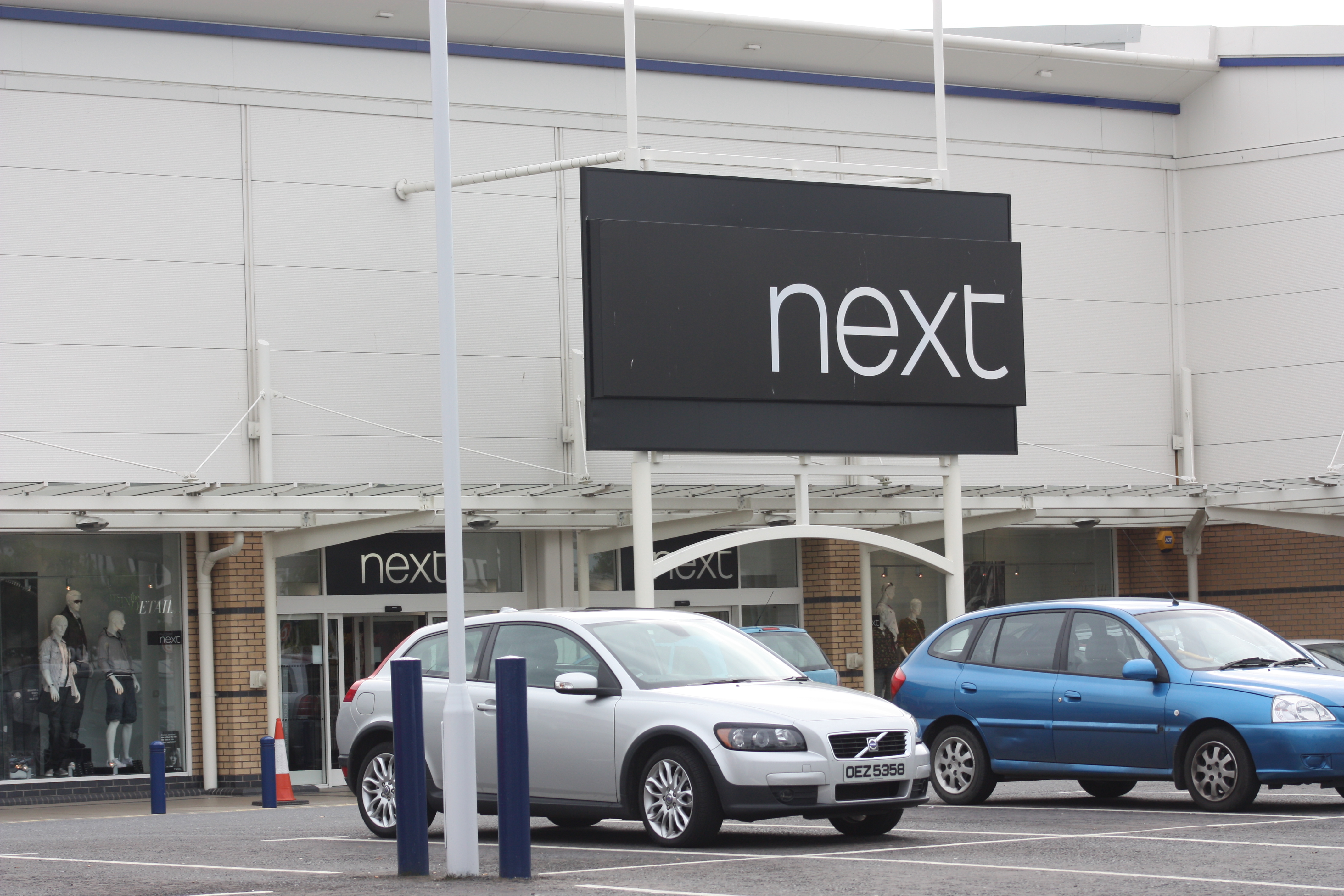 Next store, Rushmere Shopping Centre, Central Way, Craigavon, County Armagh, Northern Ireland, August 2009